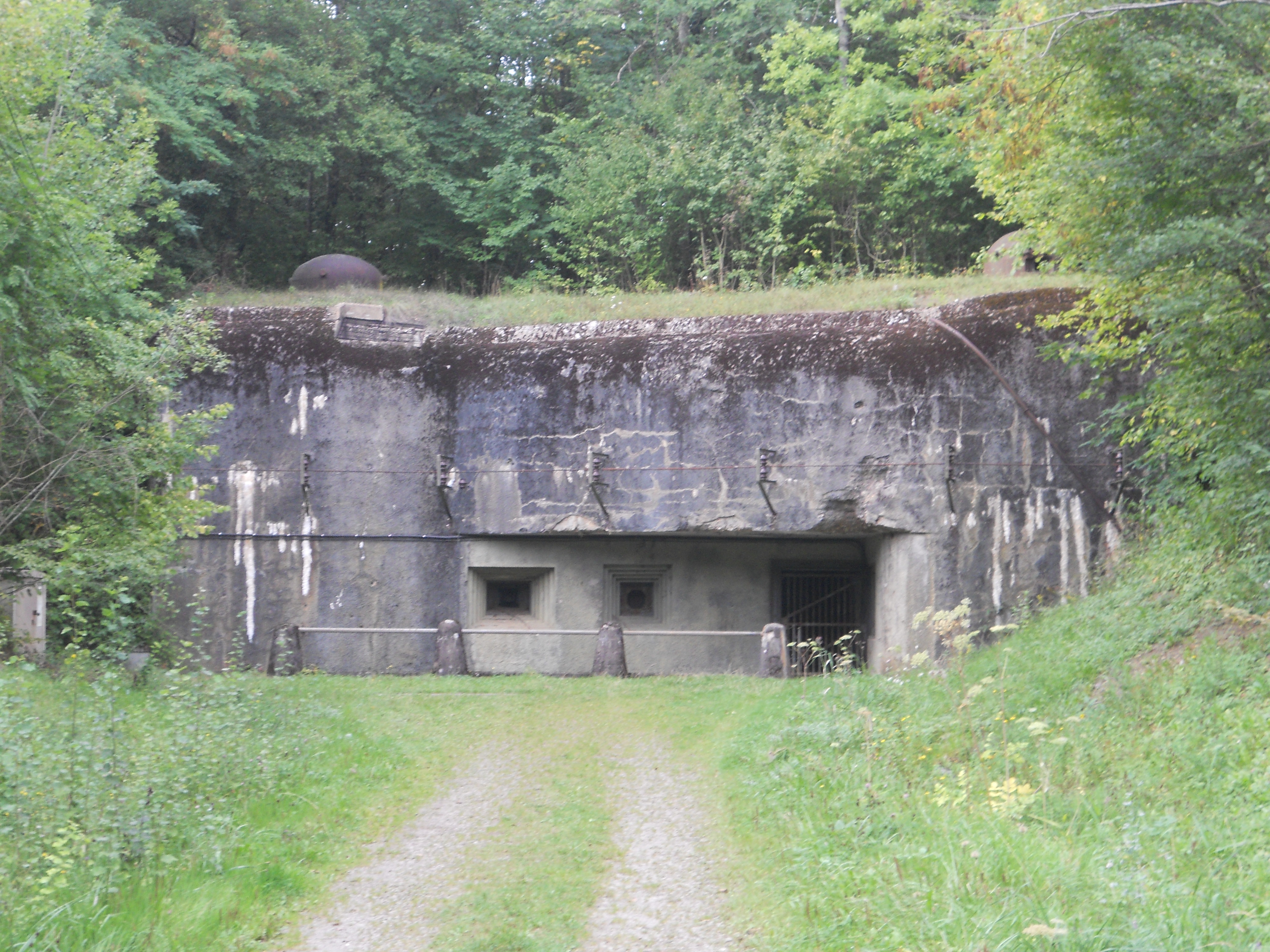 Fort de fermont, France - entrée1